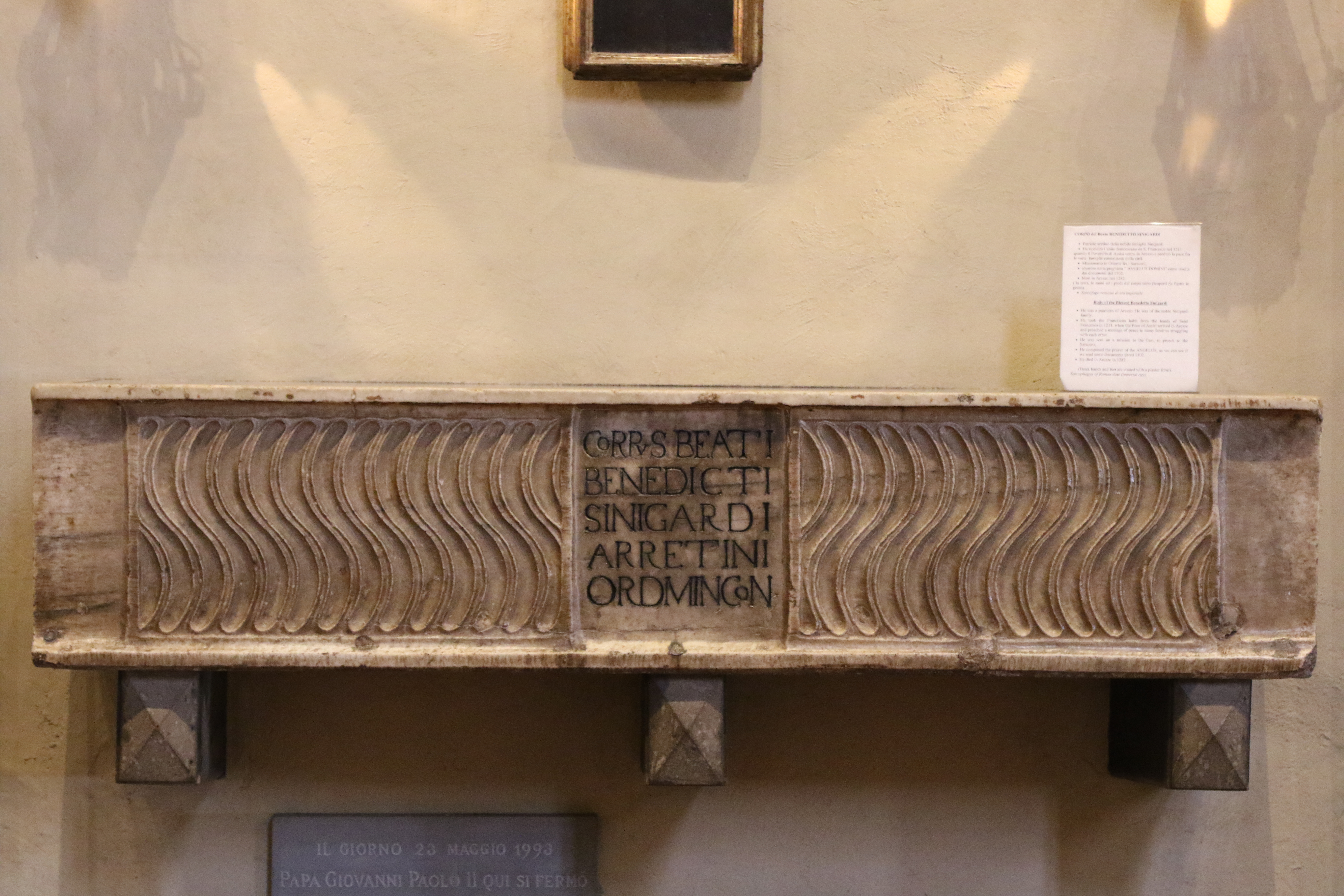 Benedetto Sinigardi was a Franciscan monk. He composed the prayer of the Angelus. He died in 1282. The tomb is a sarcophagus of Roman date. His head, hands and feet are coated with plaster.